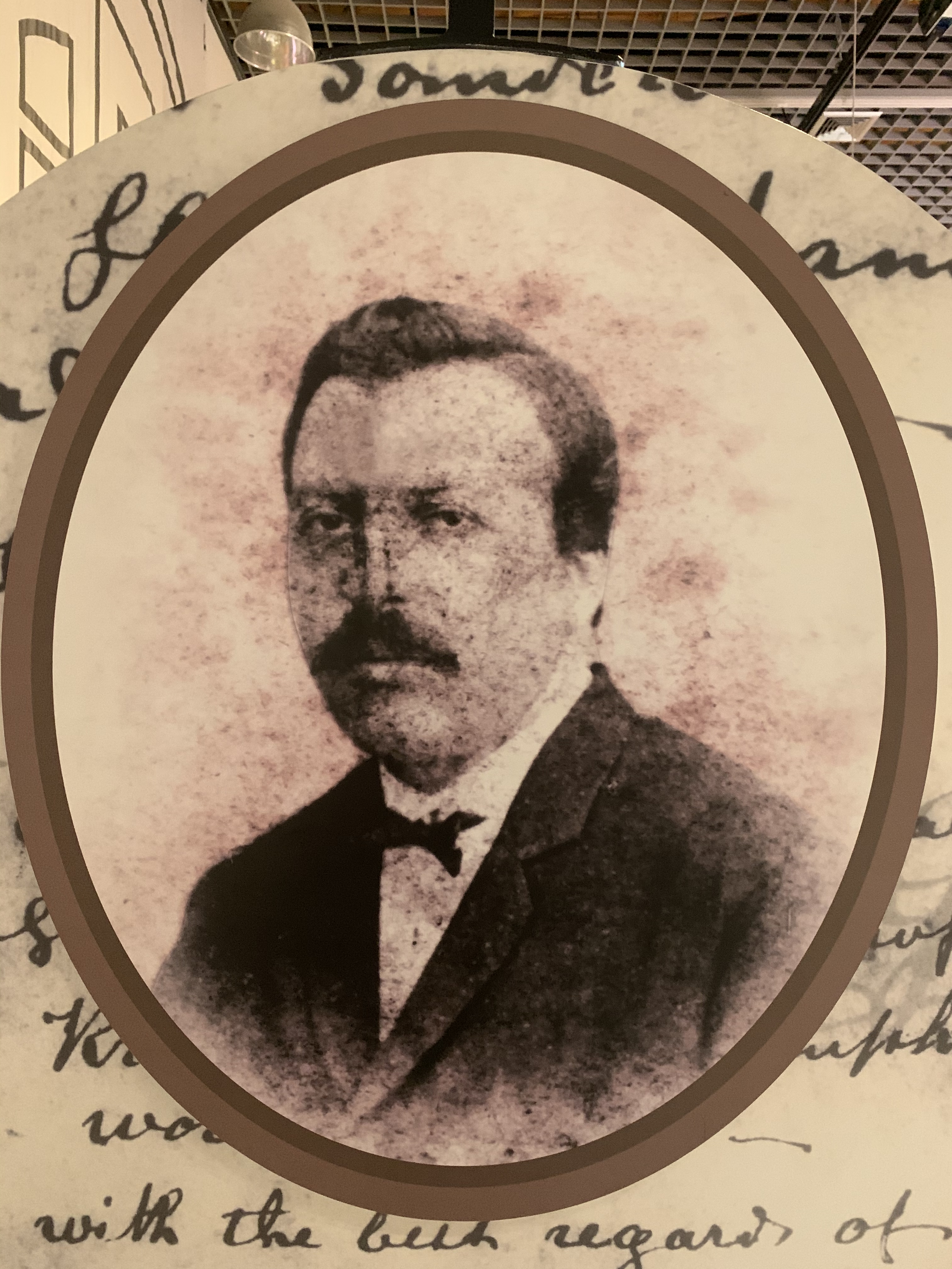 Joachim Grassi, an architect for Siam. Image on display at a temporary exhibition at Museum Siam